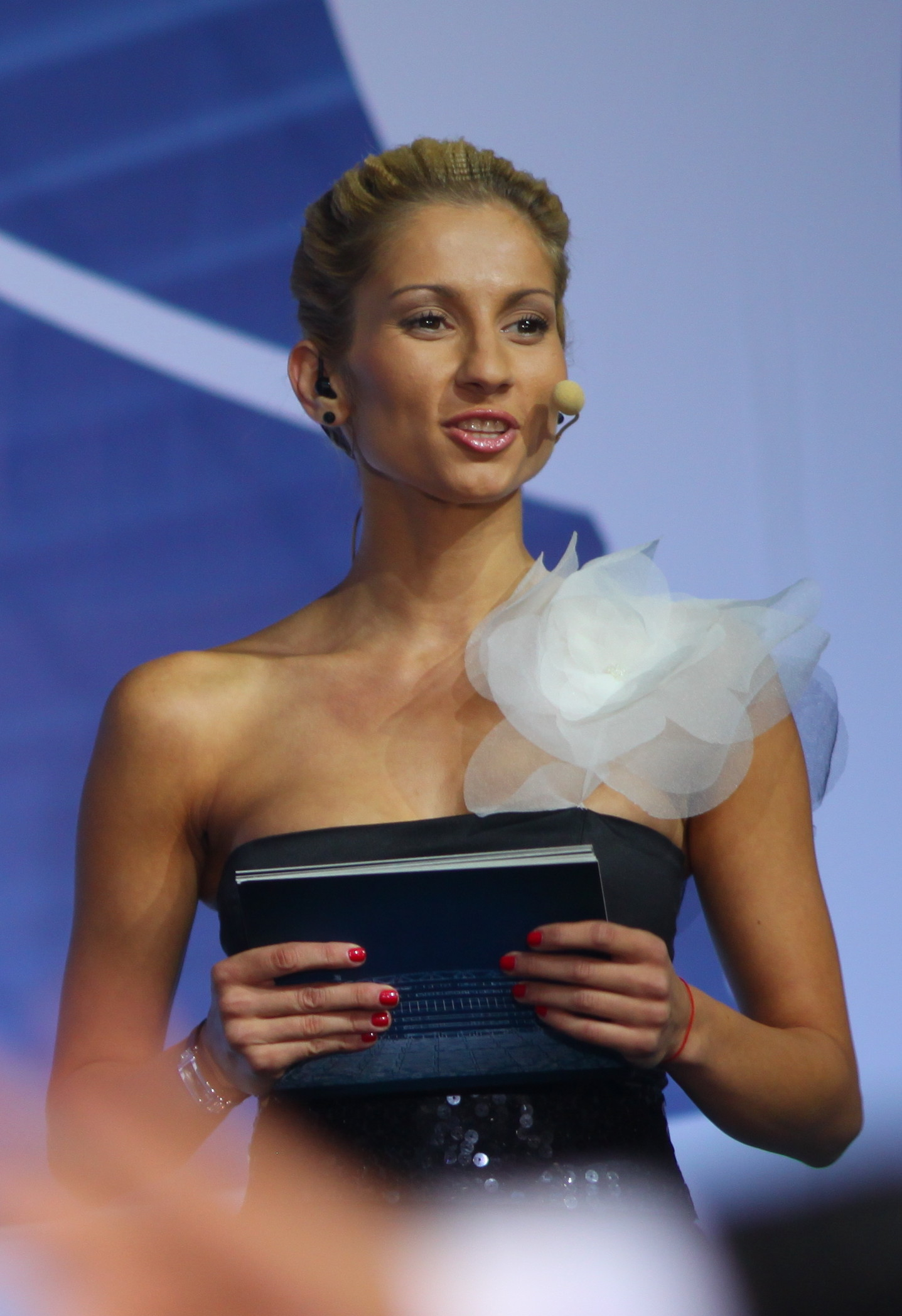 Simona Peycheva (Bulgarian: Симона Пейчева) (born May 14, 1985 in Sofia, Bulgaria) is an Individual Rhythmic Gymnast considered by many to be the best Bulgarian rhythmic gymnast of late for her extreme flexibility, technical brilliance and that she is a great audience teaser.